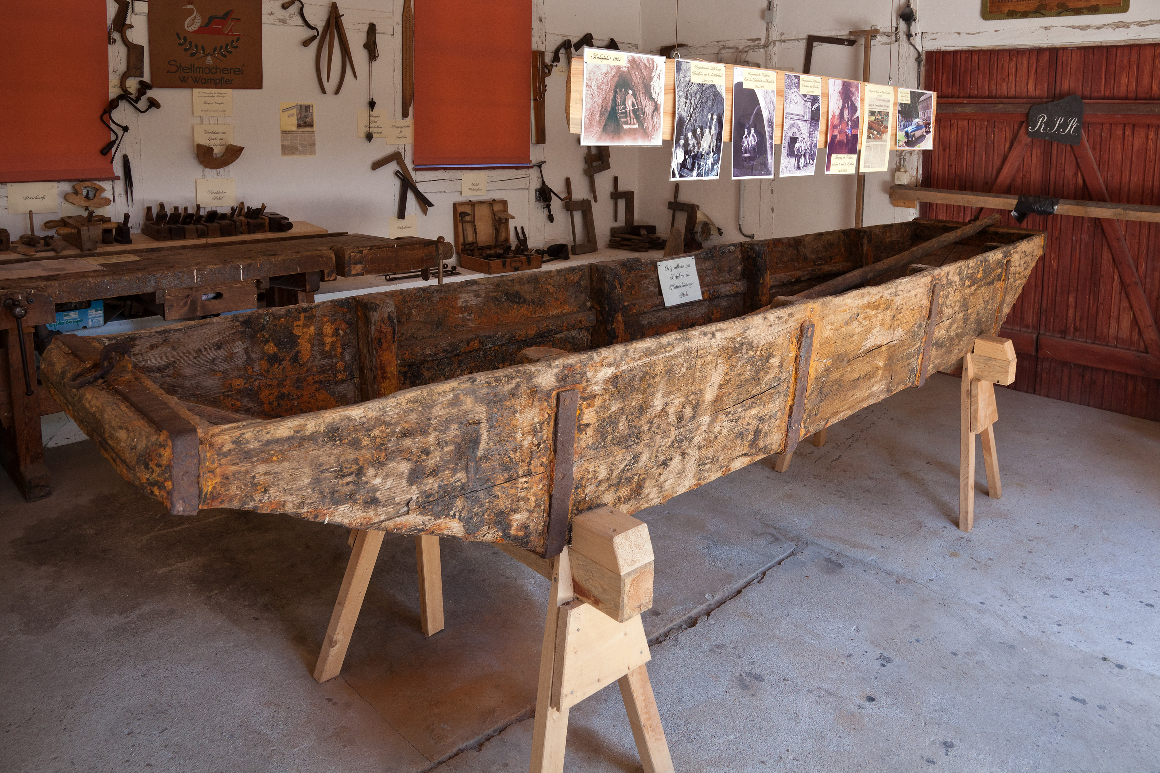 Reinsberg, Saxony, historic rowing boat in the carpentry at the ventilation shaft No. 4 of the Rothschönberger Stolln